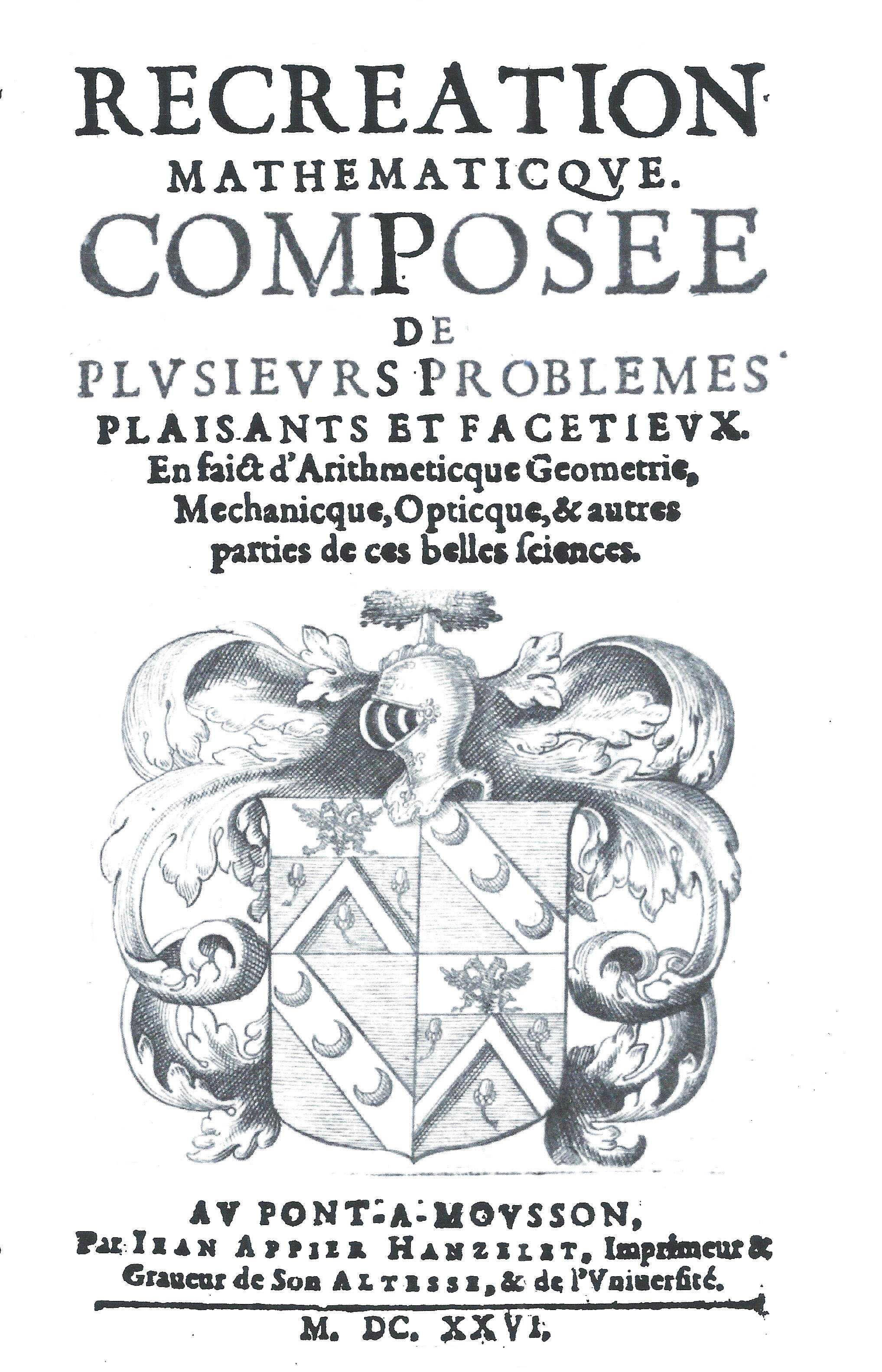 Title page of the book "Recreation Mathematicque" by Jean Leurechon, published at Pont-a-Mousson, France, in 1626